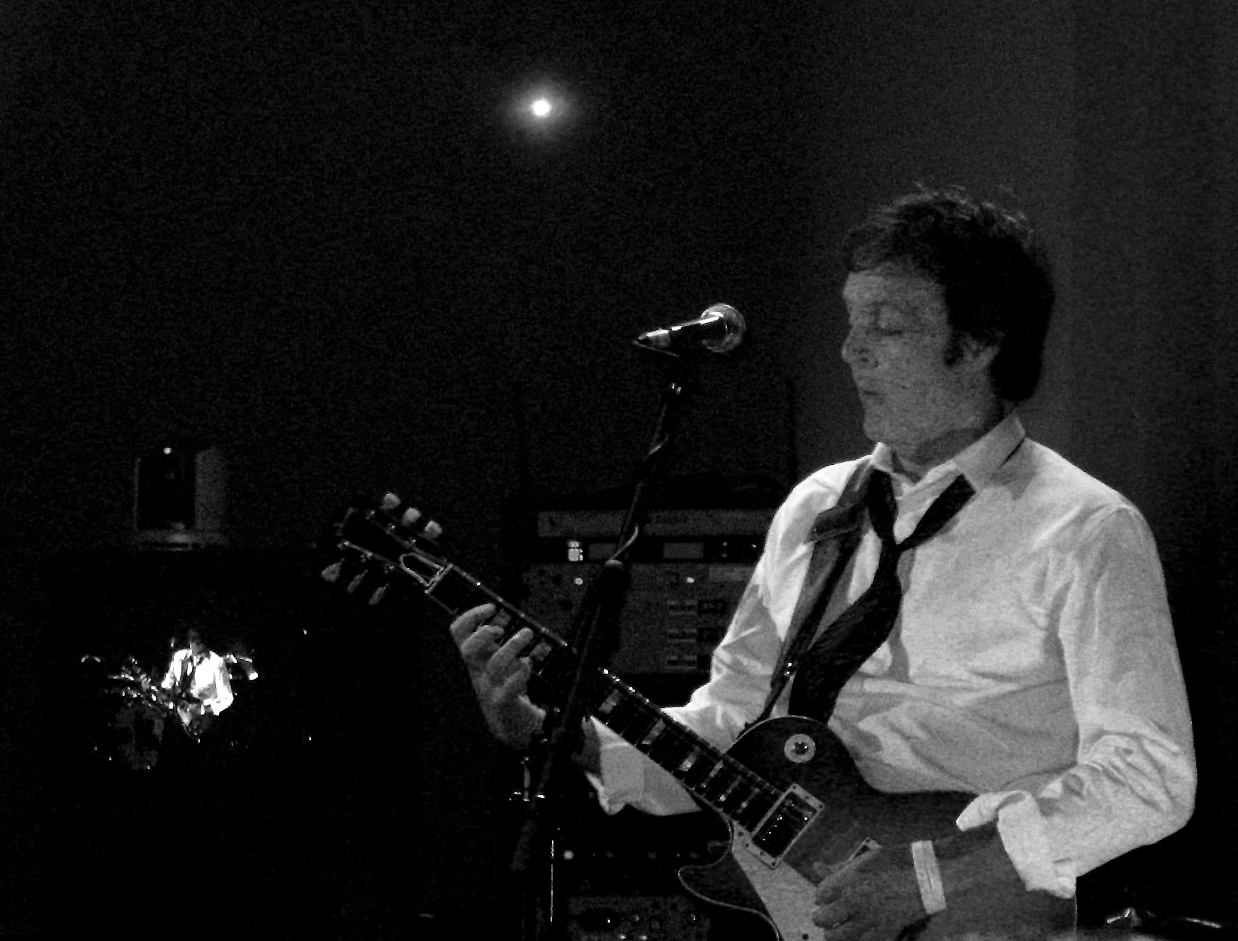 Paul McCartney mid-guitar solo on his Gibson Les Paul, in front of a TV monitor image of himself, during the Beatles' I've Got a Feeling, as part of his BBC Electric Proms concert at the Roundhouse, Camden, London, England. The set was played live in full on BBC Radio 2. Taken on October 25, 2007.